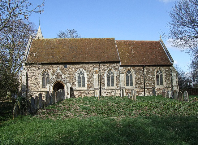 St. Mary's Potsgrove - southern side A side view, from the south, of this lovely little church in the very quiet village of Potsgrove. The view from the west can be seen here 370576 Information on the church and village here